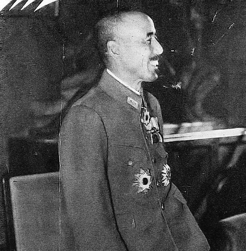 Otozo Yamada